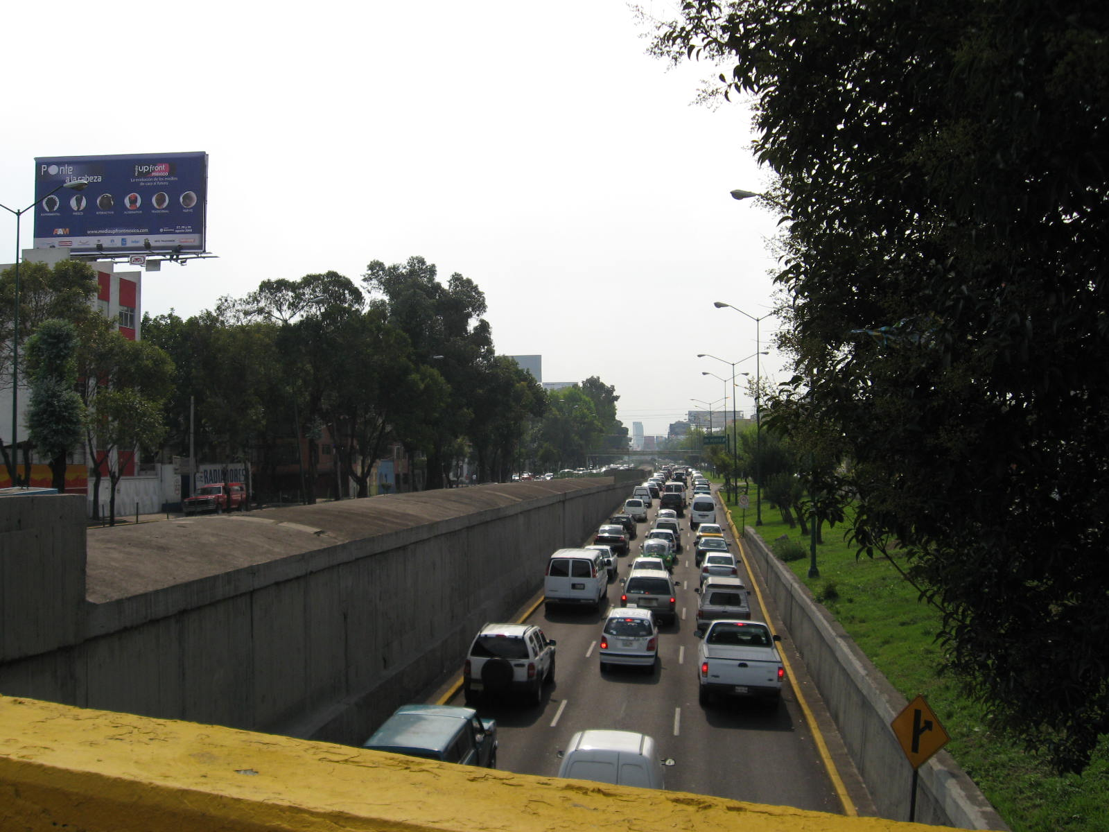 photo taken of Viaducto Miguel Aleman taken from the Eje Central bridge at about 5 pm on a Monday afternoon. In the center can been seen the tunnel constructed for the flow of water.